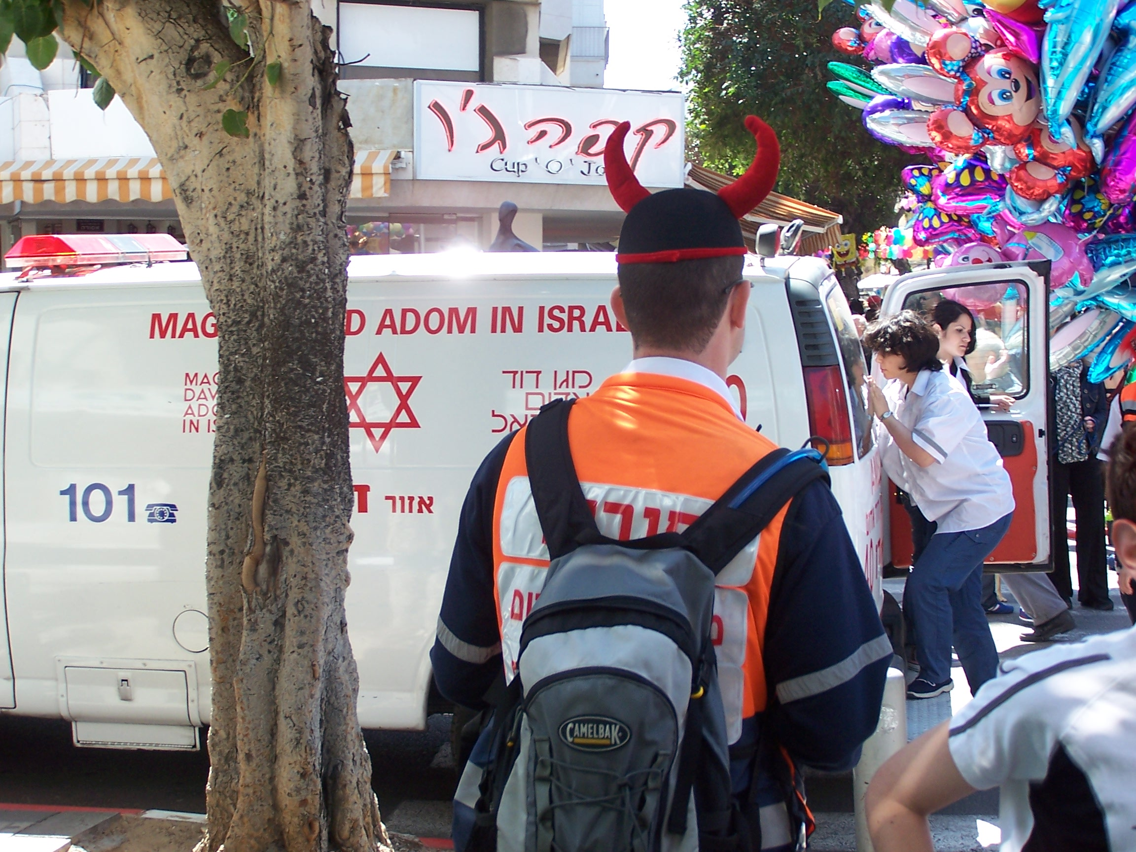 Purim in Israel: a paramedic with plastic devil horns.